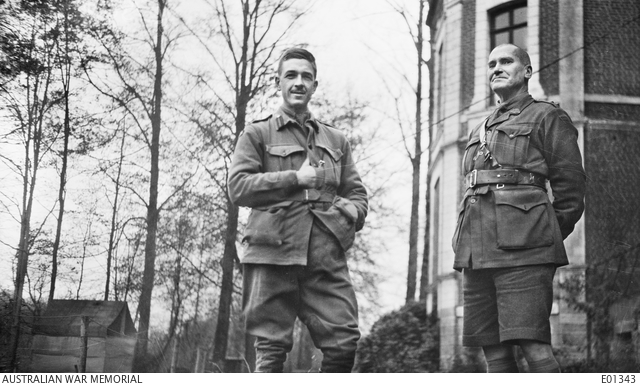 Informal portrait of Lieutenant (Lt) E M Brissenden, Divisional Claims Officer (right), a Sydney Barrister, and Lt F M Cutlack, Divisional Intelligence Officer, two well known figures on the staff of the 3rd Australian Divisional Headquarters.